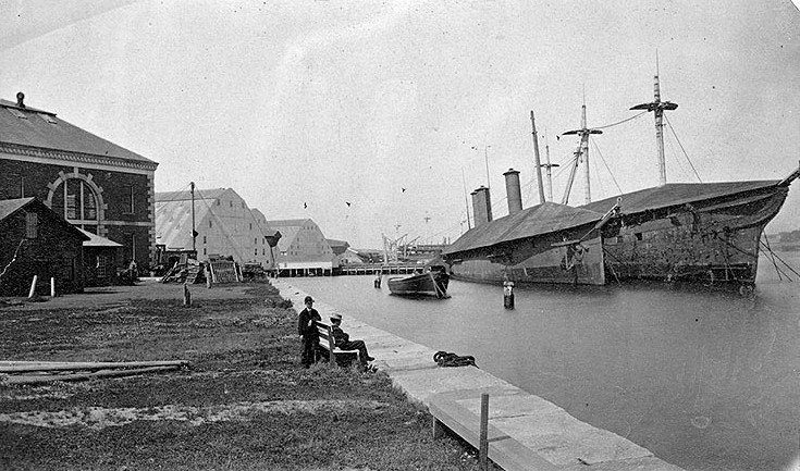 Boston Navy Yard, Massachusetts View of the waterfront, about 1870. Ships laid up and housed over, on the right, are USS Iowa, ex-Ammonoosuc (1868-1883), inboard, and USS Niagara (1857-1885). On the stocks in left center, with sterns visible between and beyond the two shiphouses, are USS Connecticut, ex-Pompanoosuc, and USS Pennsylvania, ex-Kewaydin. The receiving ship USS Ohio (1838-1883) is in the middle distance. Donation of Captain Yancy S. Williams, USN, 1928.